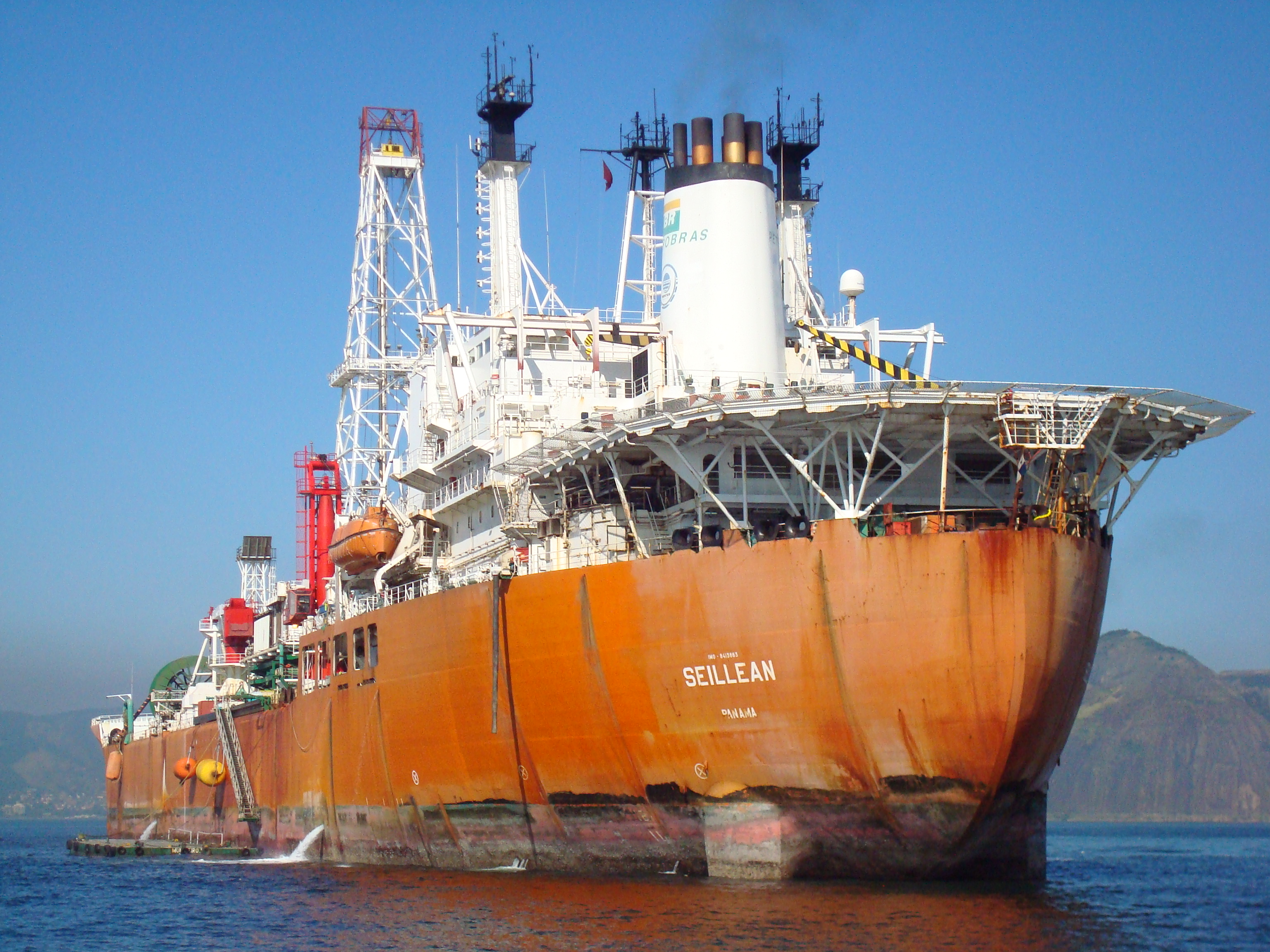 Mighty Seillean FPSO in Brazil